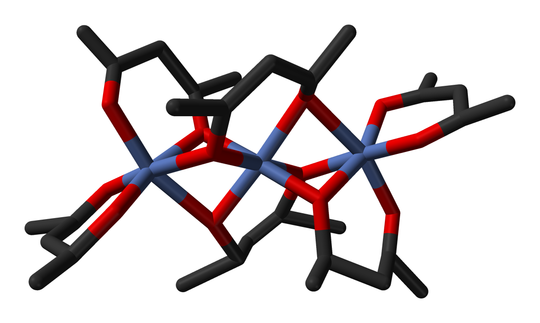 Stick model of the bis(acetylacetonato)nickel(II) complex, as found in the solid state. X-ray crystallographic data from G. J. Bullen, R. Mason, and Peter Pauling (1965). "The Crystal and Molecular Structure of Bis(acetylacetonato)nickel(II)". Inorganic Chemistry 4: 456 - 462.